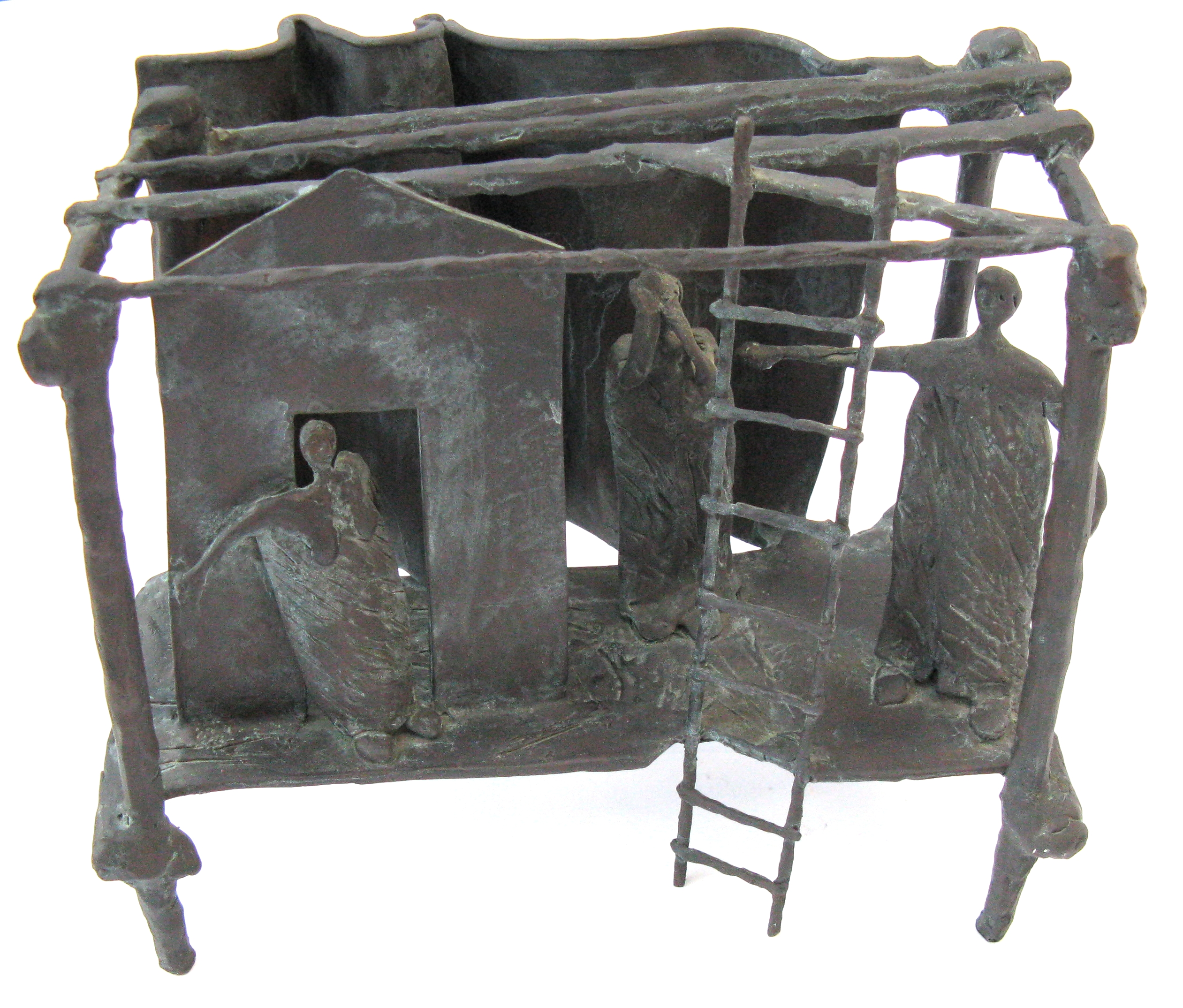 "Theatre" is a bronze sculpture by the German artist Elke Rehder, using lost-wax casting.